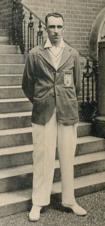 Wills Cricket Season 1928-29 Hooker